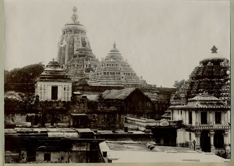 Jagannath Temple, Puri in the 1890s